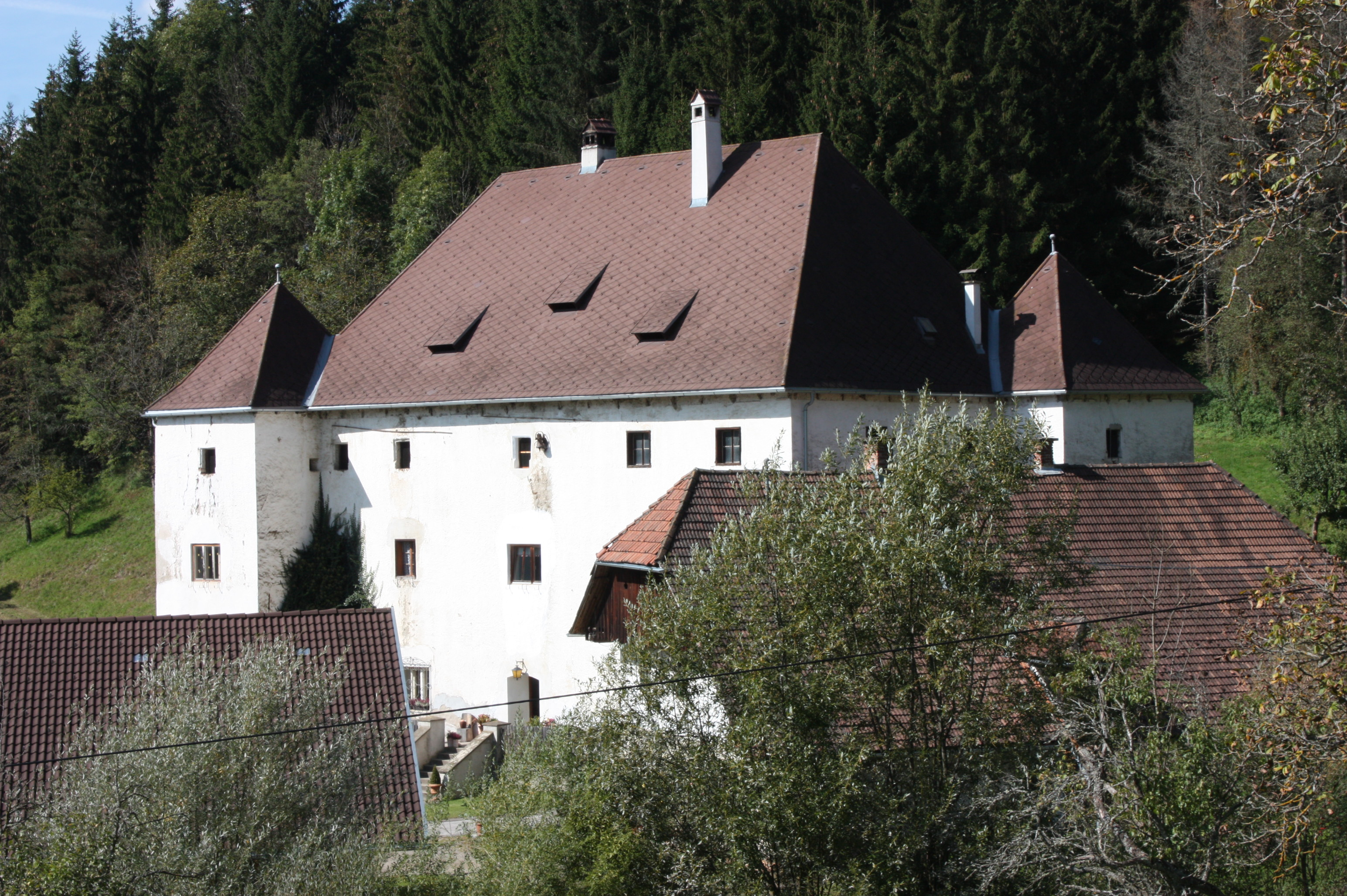 Weilern estate Locality: Staudachhof Community:Friesach